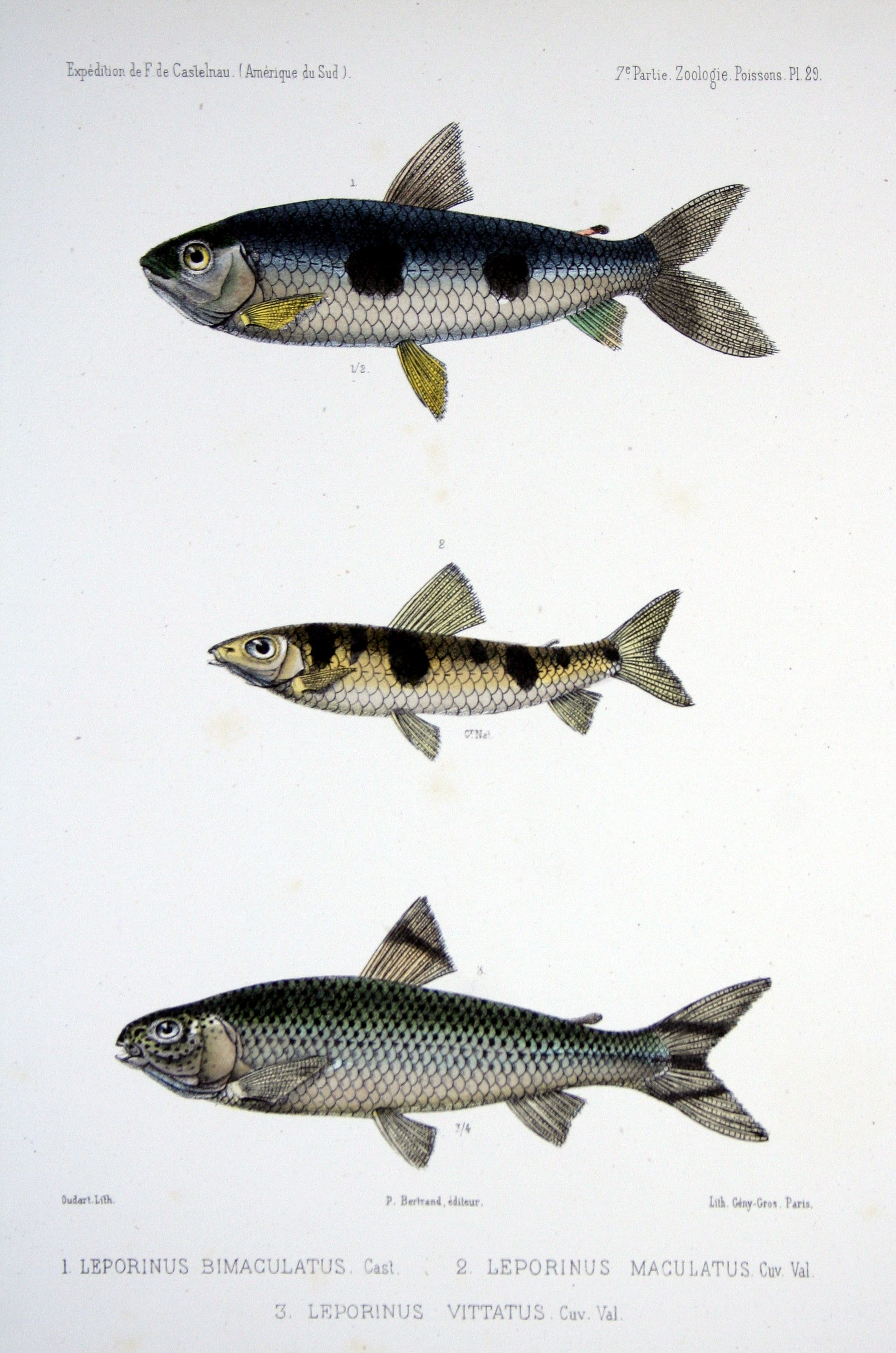 From top to bottom: Leporinus bimaculatus "Leporinus maculatus" Cuvier (non Müller & Troschel, 1844) = Leporinus sp.? Leporinus vittatus = Leporellus vittatus